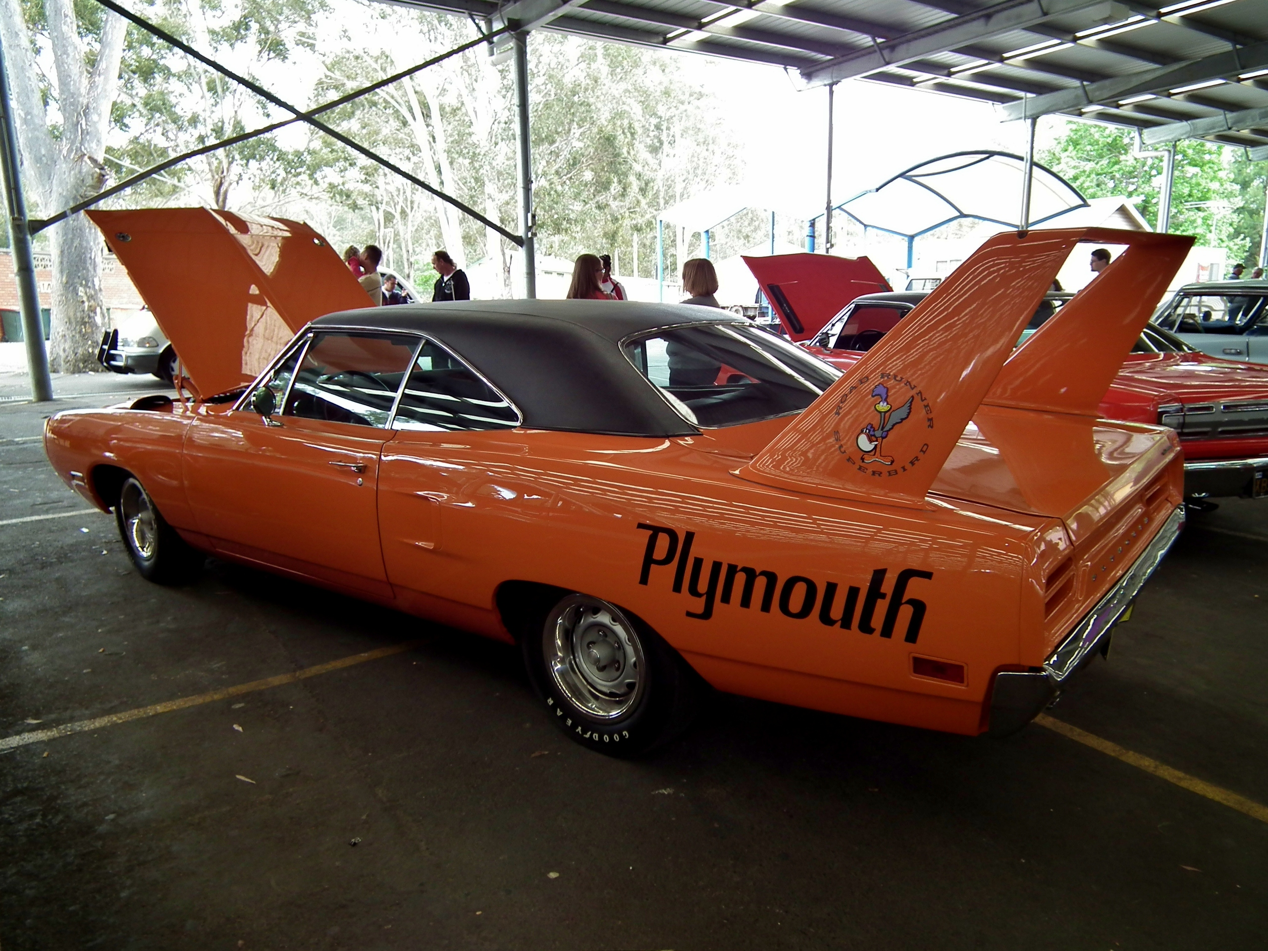 1970 Plymouth Road Runner Superbird coupe. Taken at the 2012 New South Wales All Chrysler Day, held at Fairfield Showground, Prairiewood, Sydney.